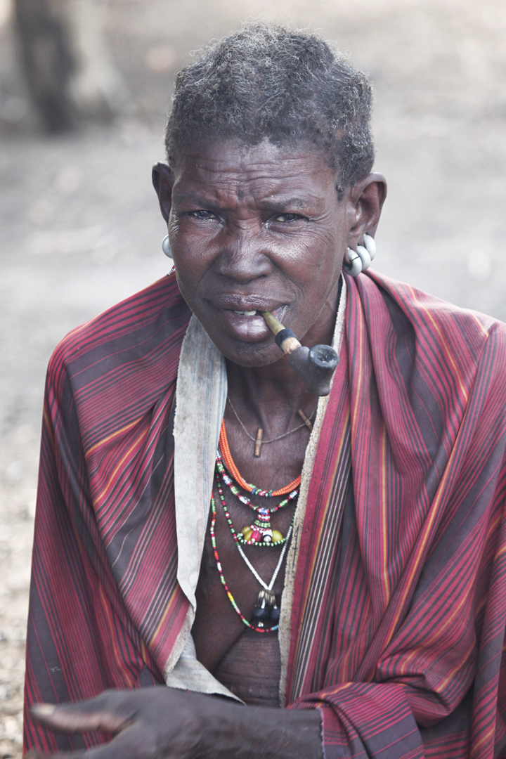 Toposa woman of South Sudan smoking a pipe